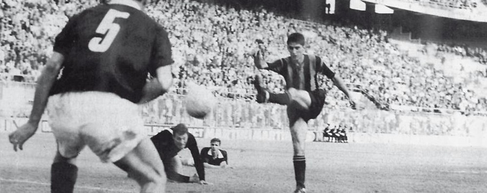 Milan (Italy), San Siro, June 2, 1963. Atalanta B.C. — A.C. Torino 3-1, 1962–63 Coppa Italia Final: Atalanta's forward Angelo Domenghini scores the partial 3-0 and his hat-trick in the match.